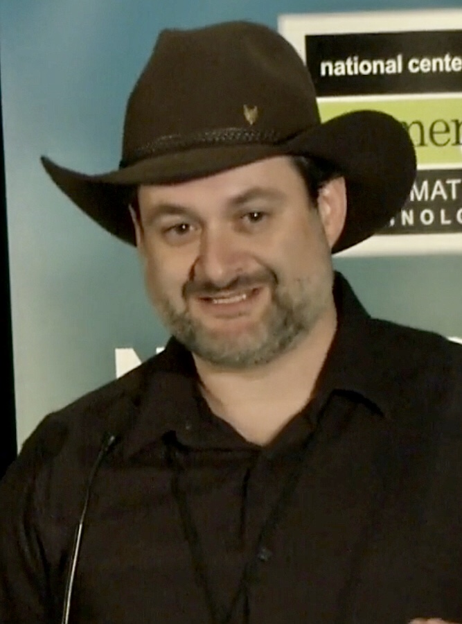 Animation director and writer Dave Filoni at the 2016 NCWIT Summit